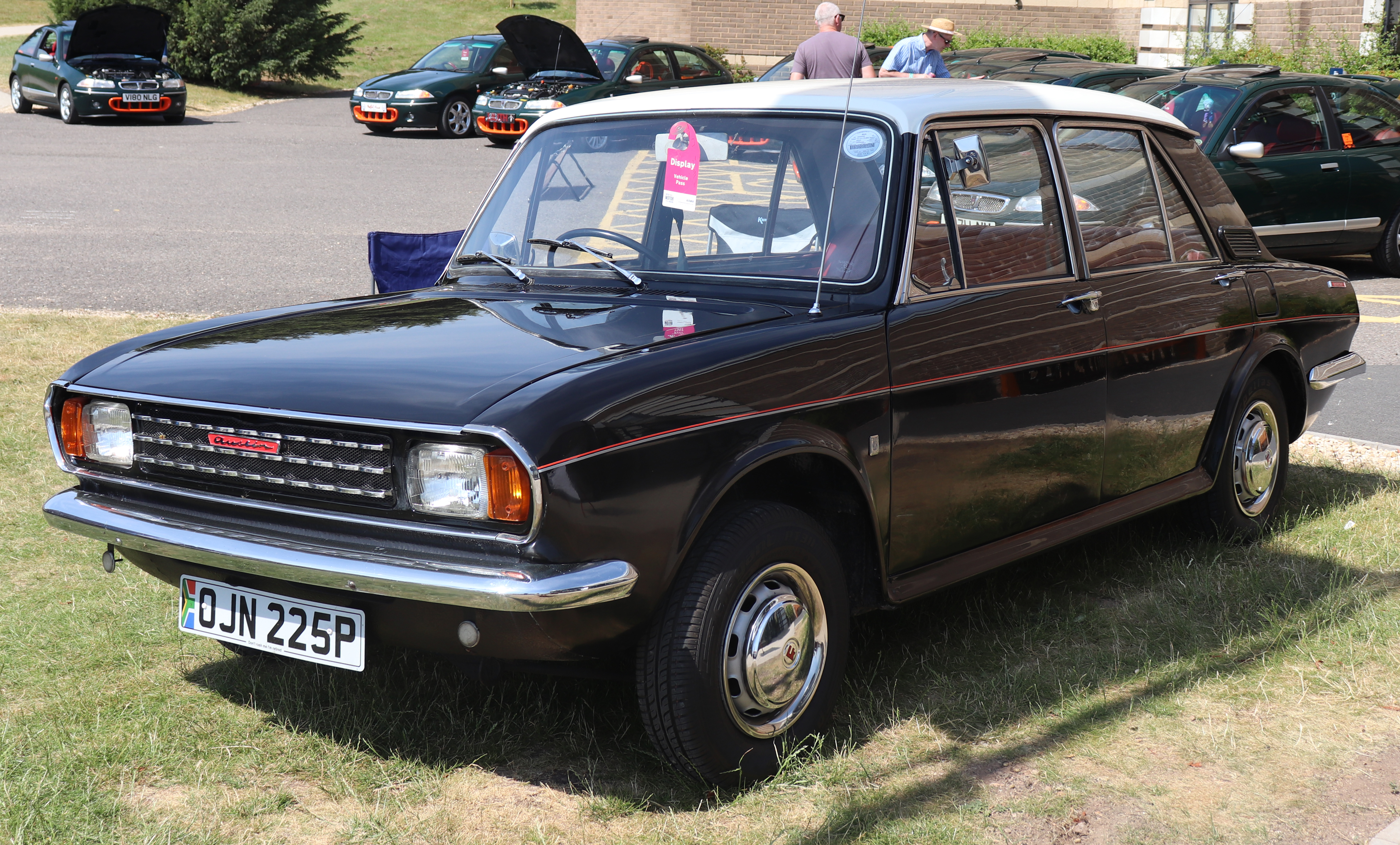 1976 Austin Apache 1.3 Front Taken at the British Motor Museum BMC & Leyland Show 2018, Gaydon